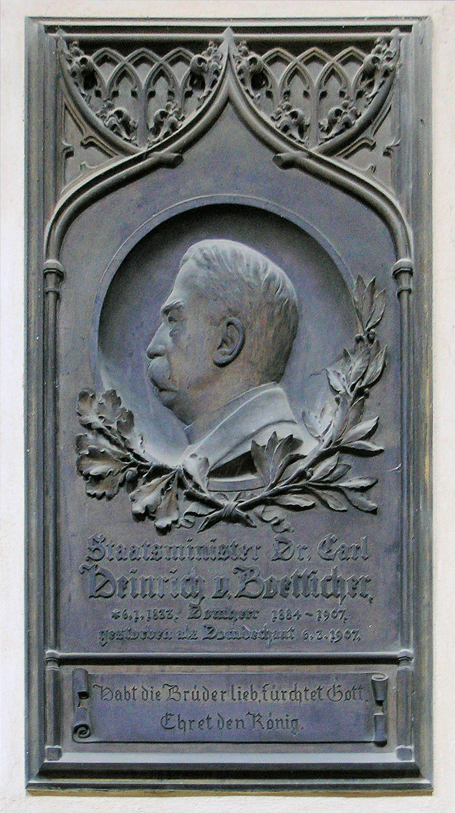 Memorial plaque, Karl Heinrich von Boetticher, Domplatz , Naumburg (Saale), Germany Koordinate:51°9′17″N 11°48′13″E / 51.15472°N 11.80361°E